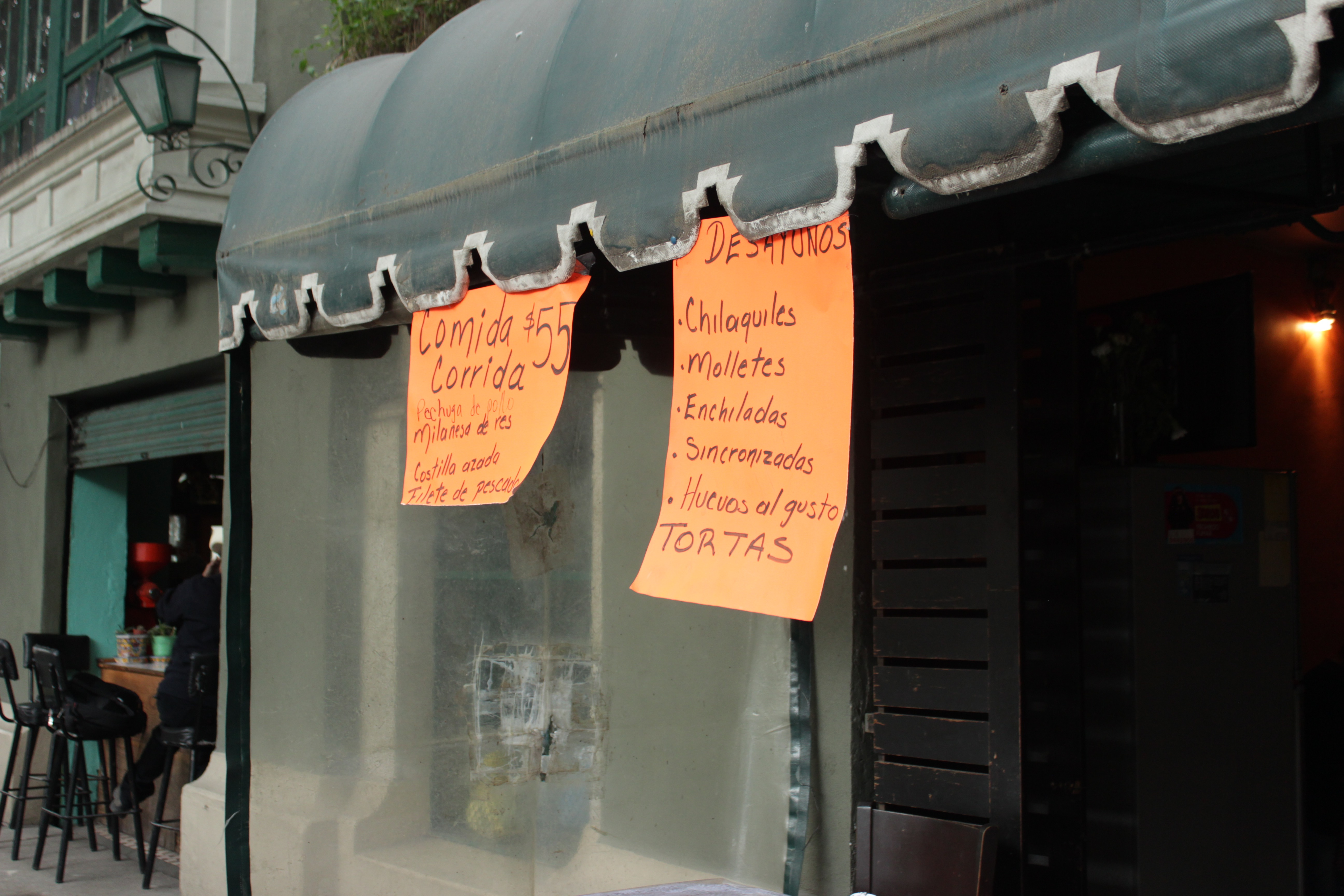 Signs written with sharpie on an orange fluorescent cardboard showing the food of the day and its price. Located in Av. Mazatlán 5, Colonia Condesa, Mexico City.